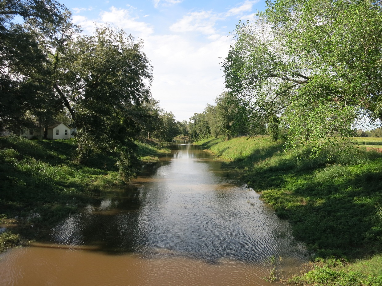 Photo shows Caney Creek at the FM 457 bridge in Rugeley, Texas. View is toward the north.